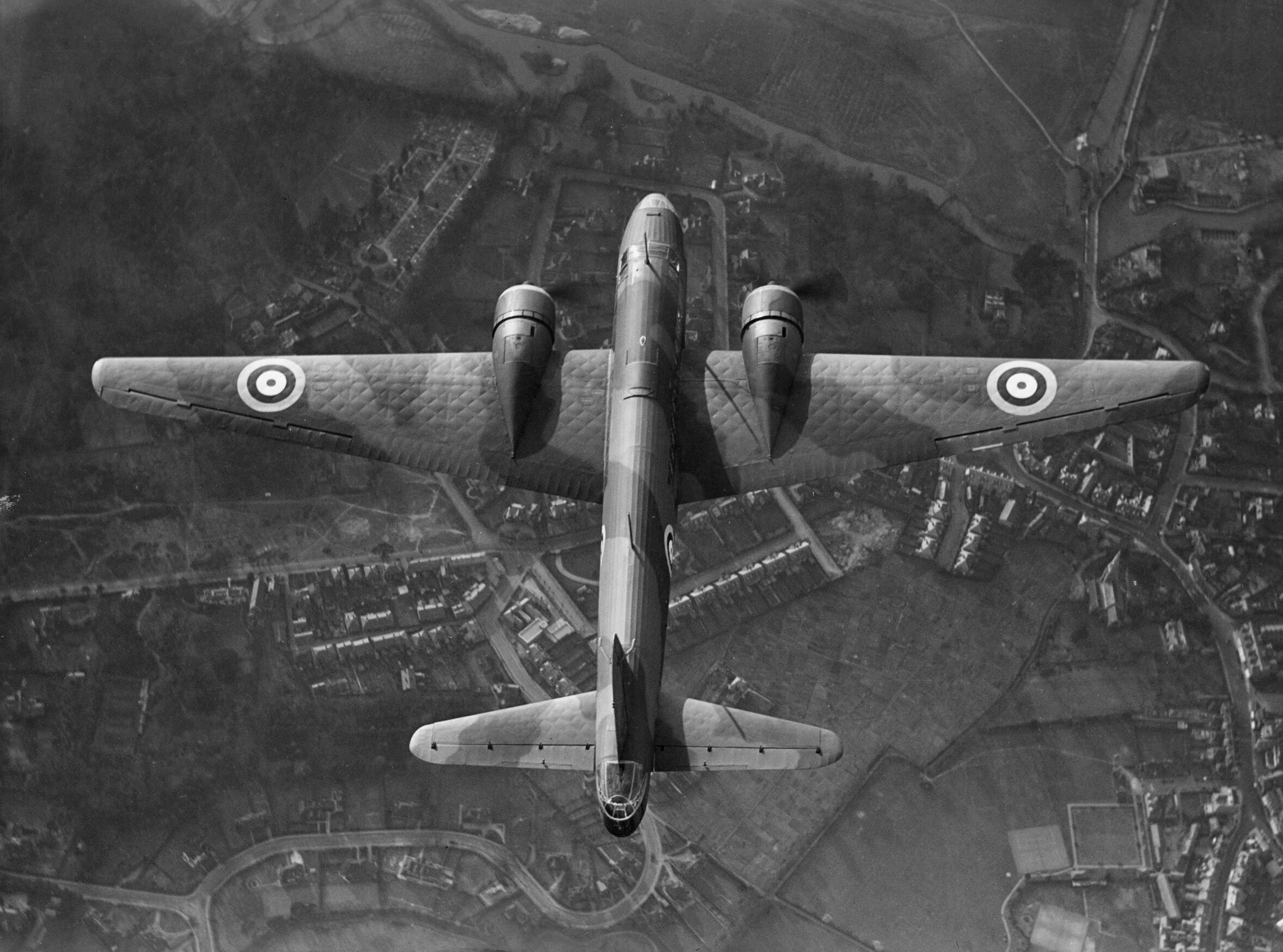 RAF Bomber Command Overhead view of an early Vickers Wellington Mk I in flight.